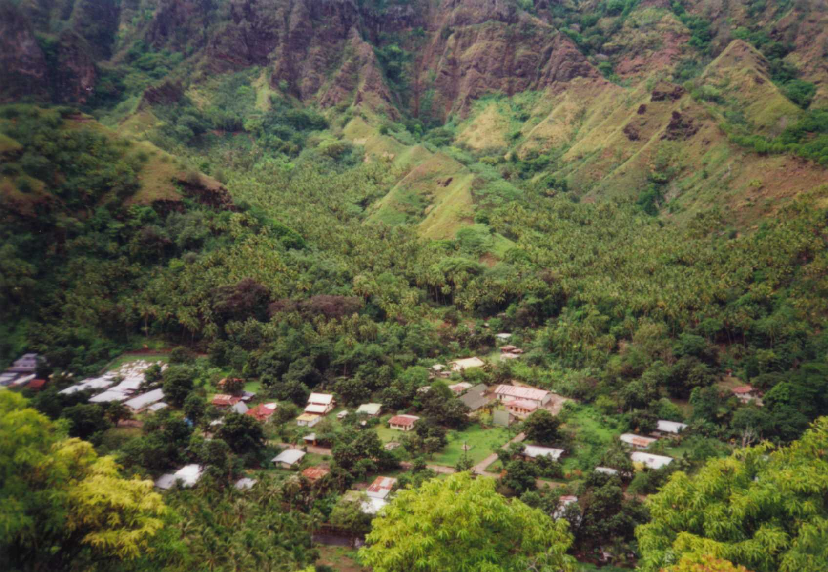 The village of Omoa, Fatu Hiva Island, Marquesas Islands, French Polynesia